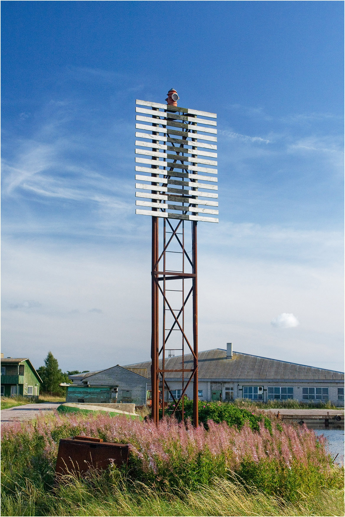 Kõrgessaare front light beacon